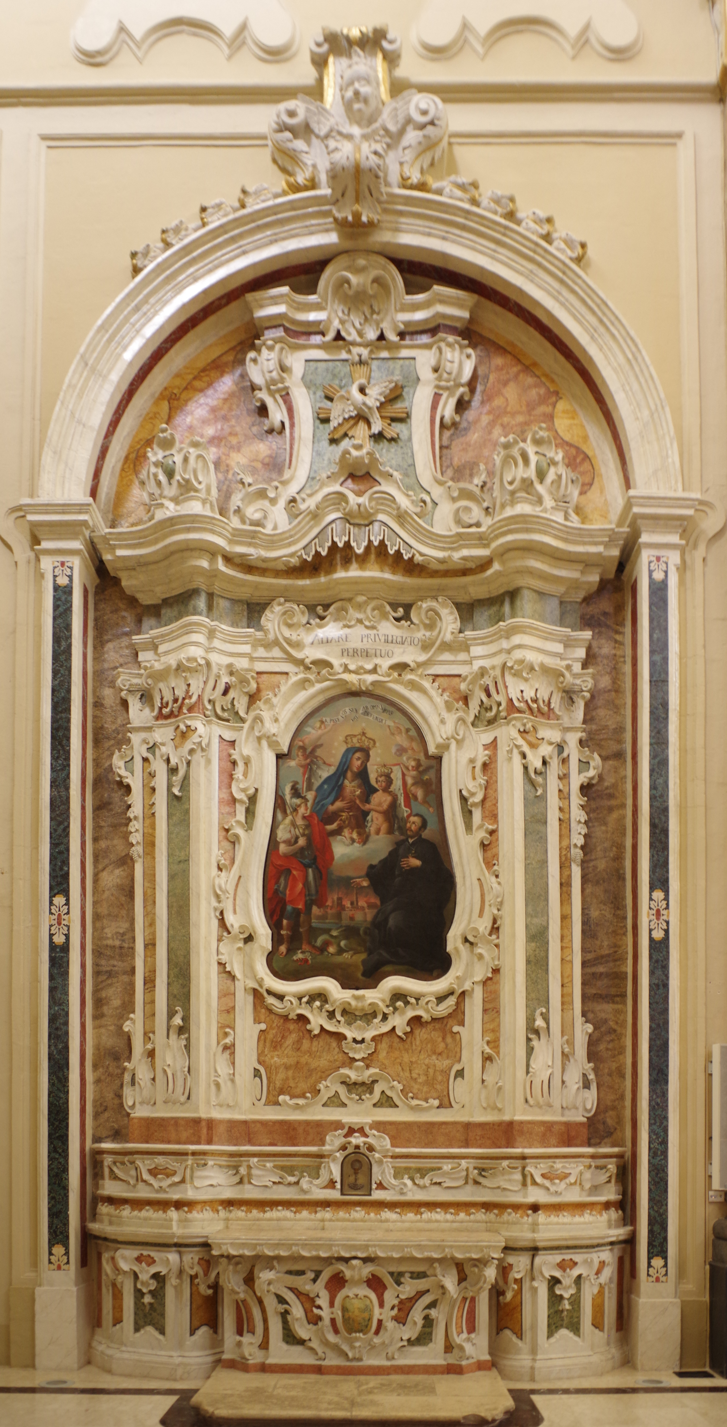 Italy, Martina Franca, San Martino church, altar Santa Maria di Costantinopoli